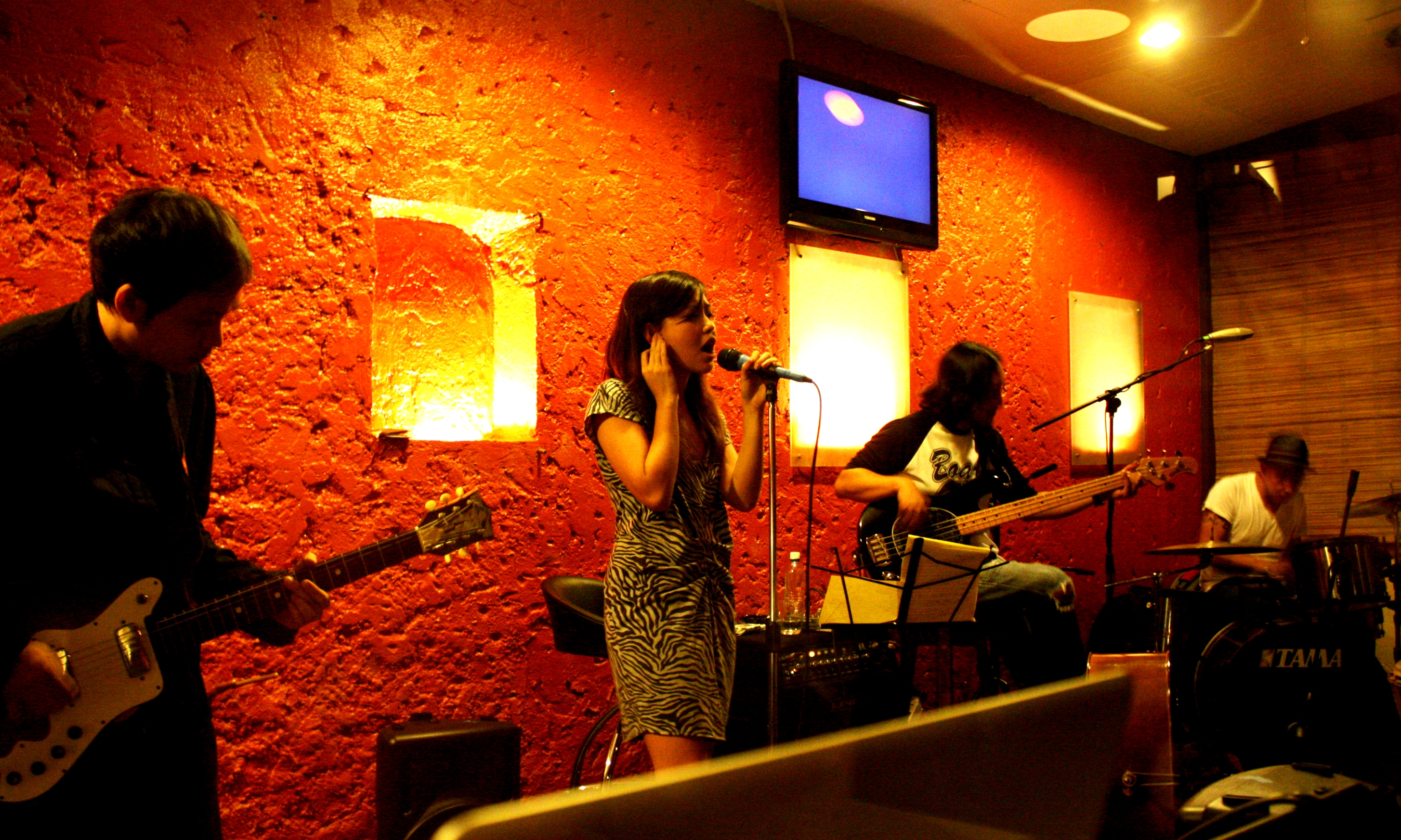 Filipino Indie Band TOI performing at their "The Rehersal" show at Route 196, Quezon City. Band members shown, left to right, are Pat Tirano, Pauline Diaz, Louie Talan, and Wendell Garcia.